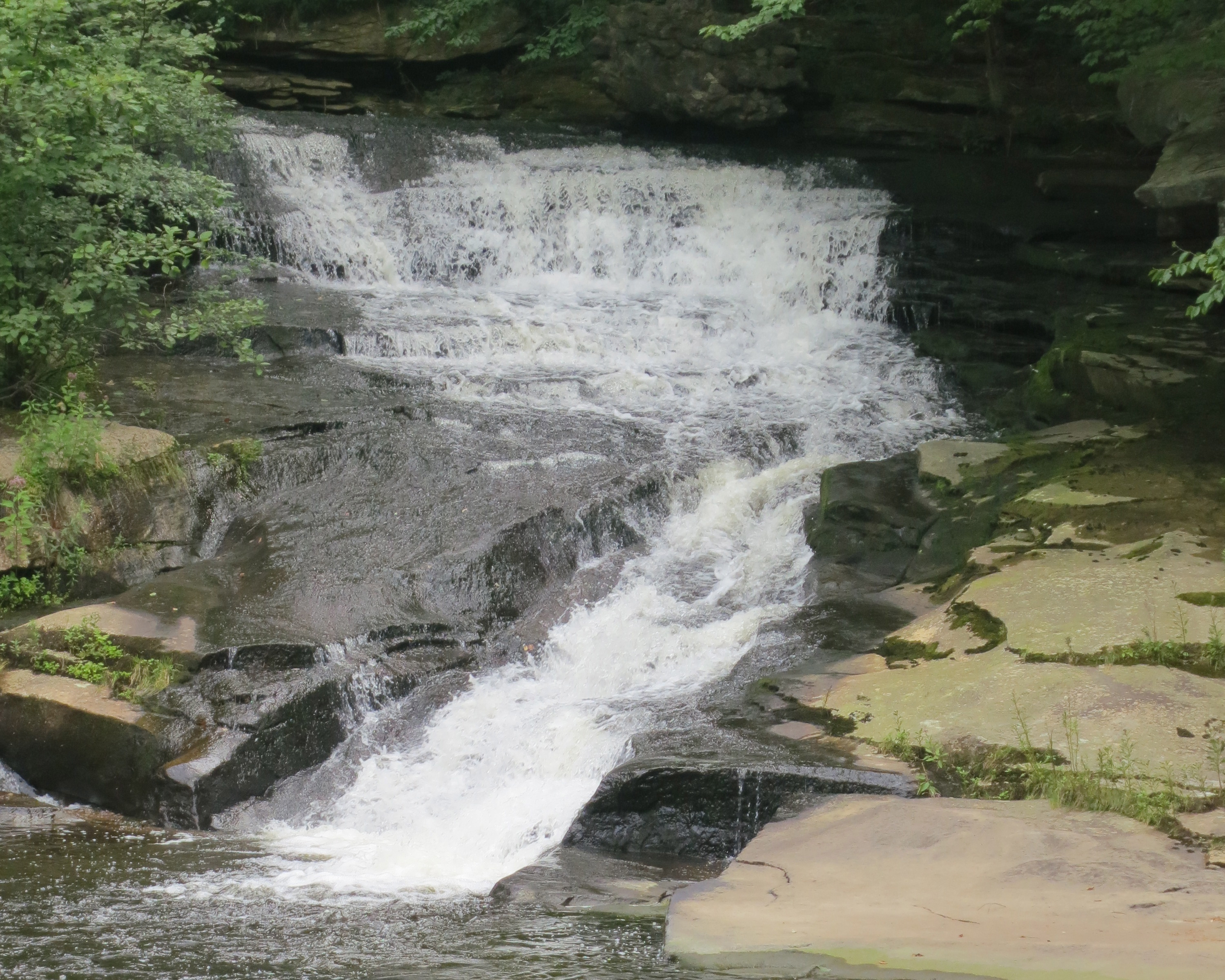 View from Old Mill Yard Road along the M&M Trail - Section 13